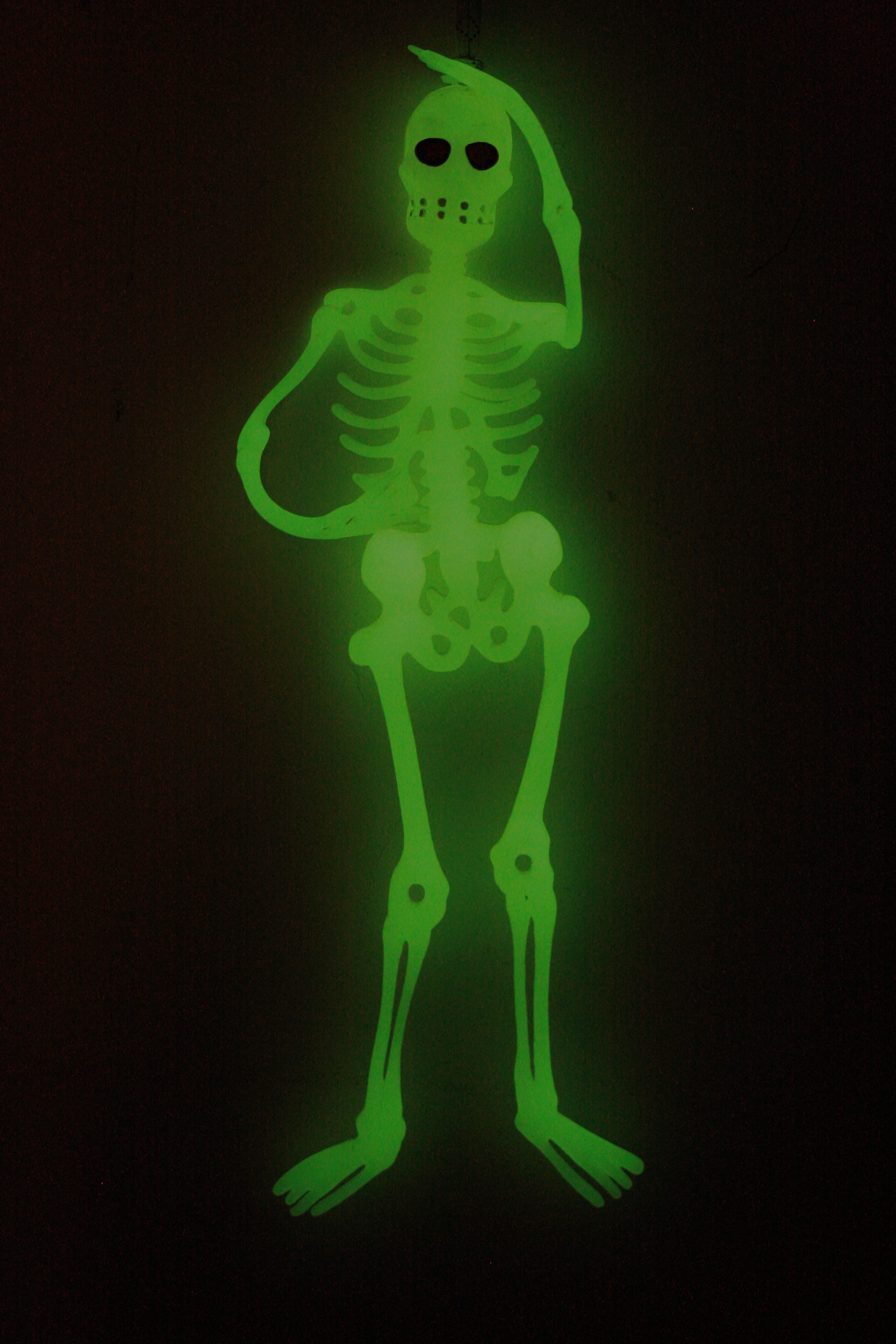 Ghost?!